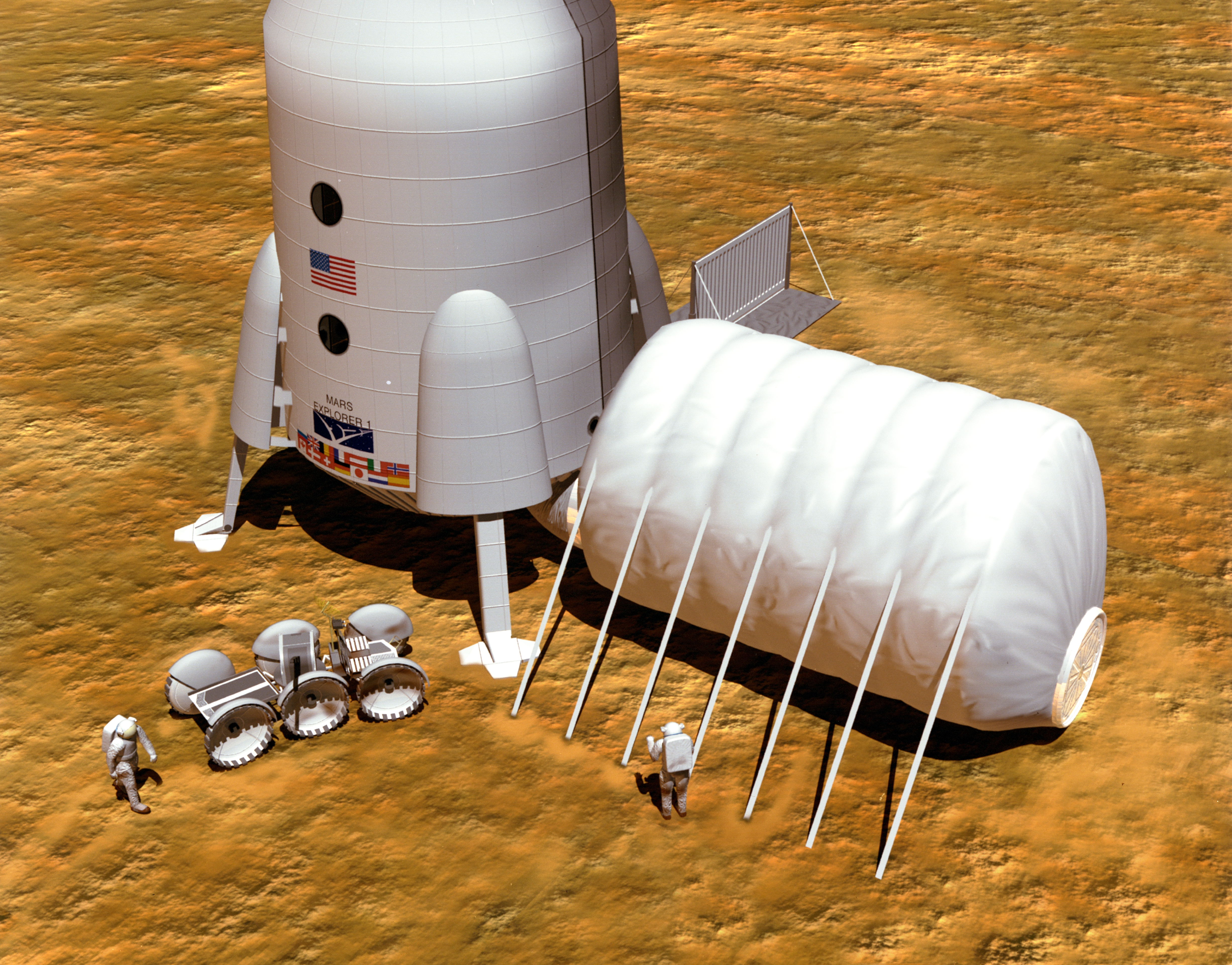 Artist's concept of Mars outpost designed to protect astronauts from radiation. The shelter is made up from radiation-shielding materials that may be producted from the elements available locally on Mars. "One possible solution is "Mars bricks." Astronauts could produce radiation-resistant bricks from materials available locally on Mars, and use them to build shelters. They might, for example, combine the sand-like "regolith" that covers the Martian surface with a polymer made on-site from carbon dioxide and water, both abundant on the red planet. Zapping this mixture with microwaves creates plastic-looking bricks that double as good radiation shielding" (Sheila Thibeault, a scientist at NASA's Langley Research Center)